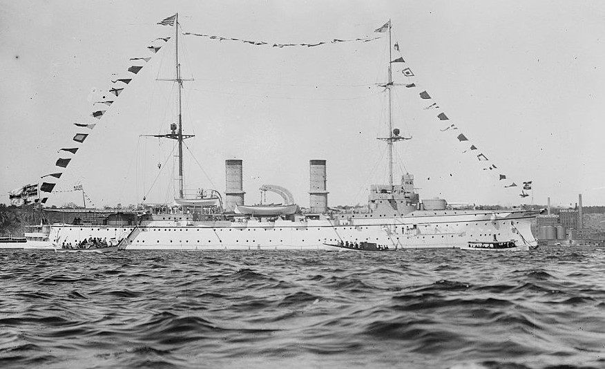 The German cruiser SMS Hertha, photographed during a visit to the U.S. (New York City?). The picture was probably taken between 1905 and early 1914. From 1900 to 1905 Hertha was stationed in East Asia and she was decommissioned on 11 November 1914.